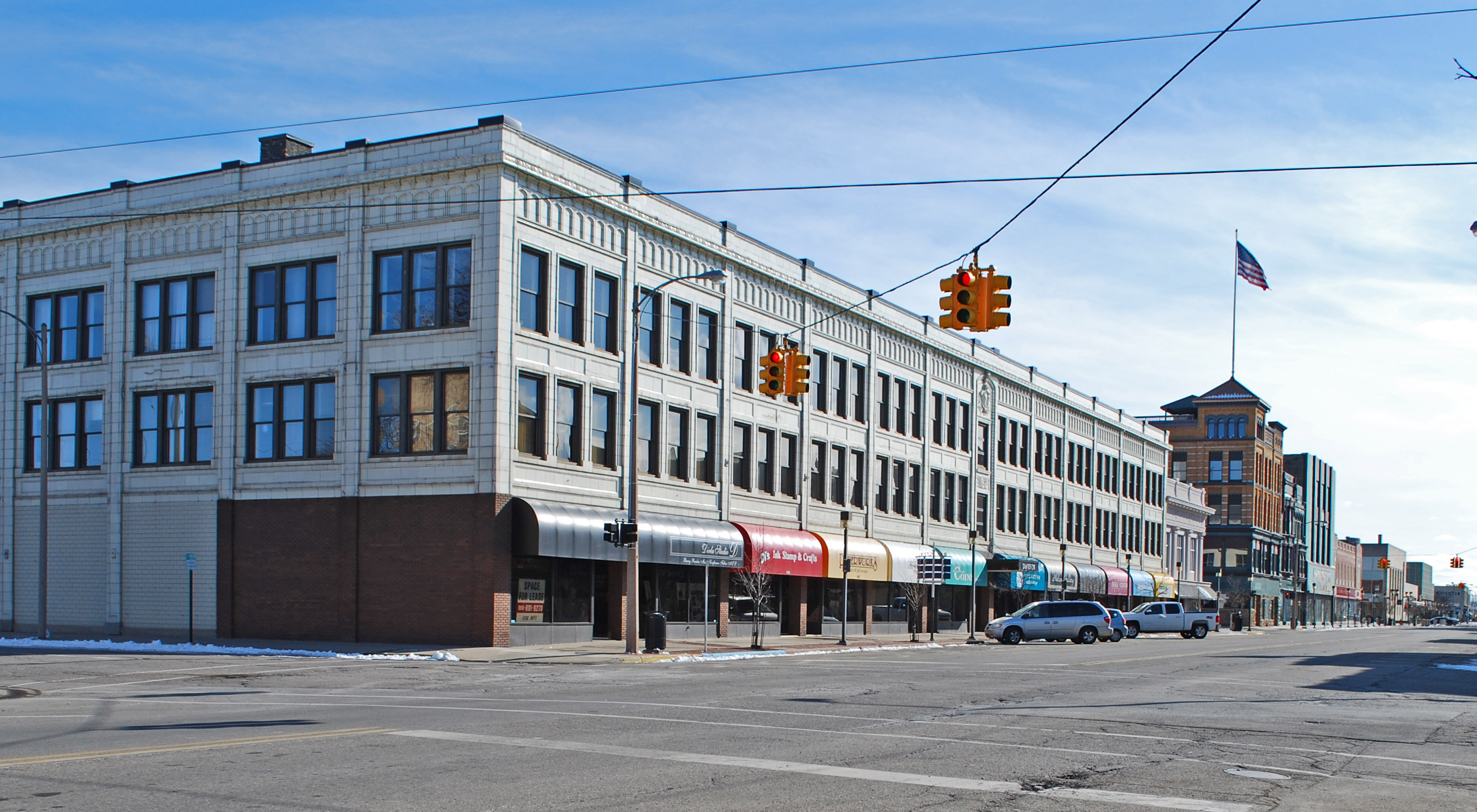 Downtown Bay City, Michigan. Contributing properties to the Bay City Downtown Historic District.